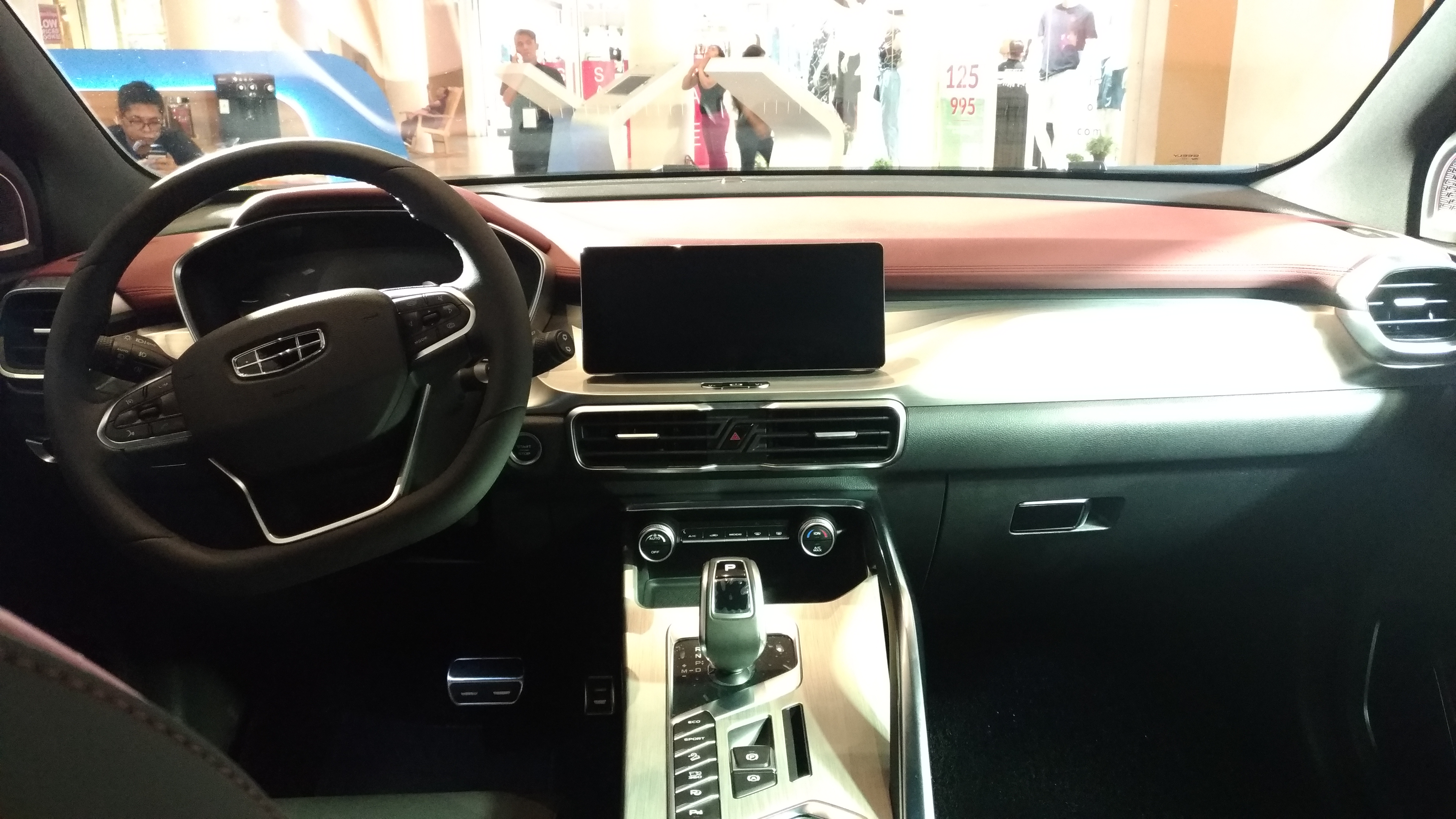 2019 Geely Coolray interior. Photographed at U.P. Town Center in Quezon City, Philippines